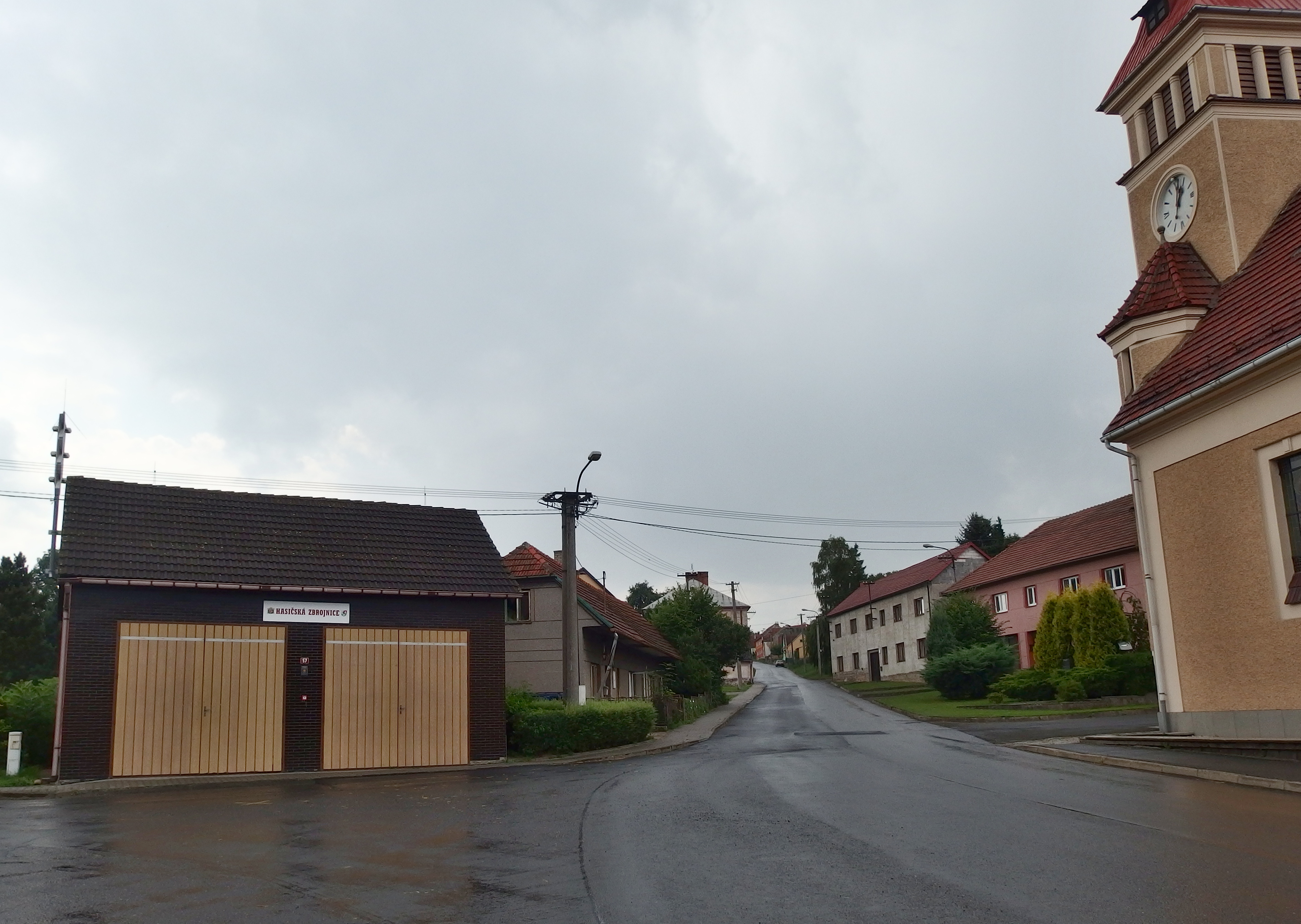 Malhotice, Přerov District, Czech Republic.